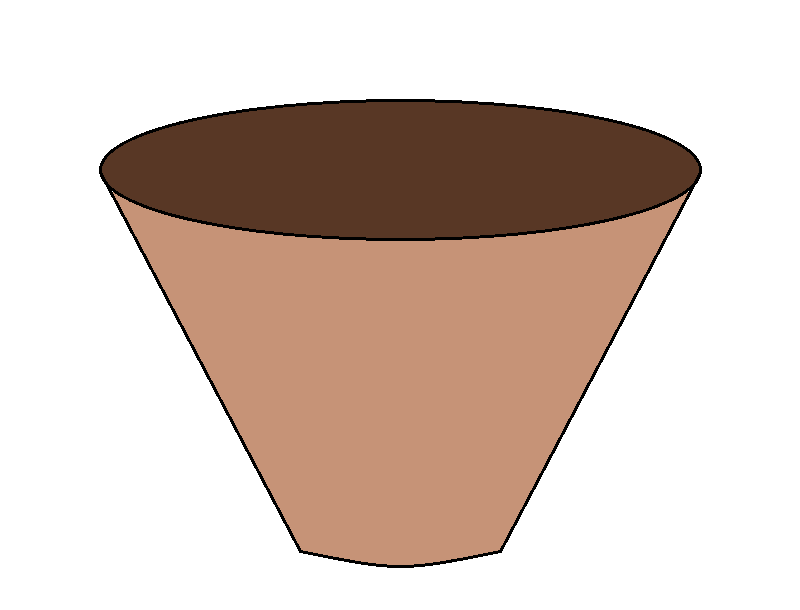 Taḡār, a pottery container usually used in Iran for keeping yogurt